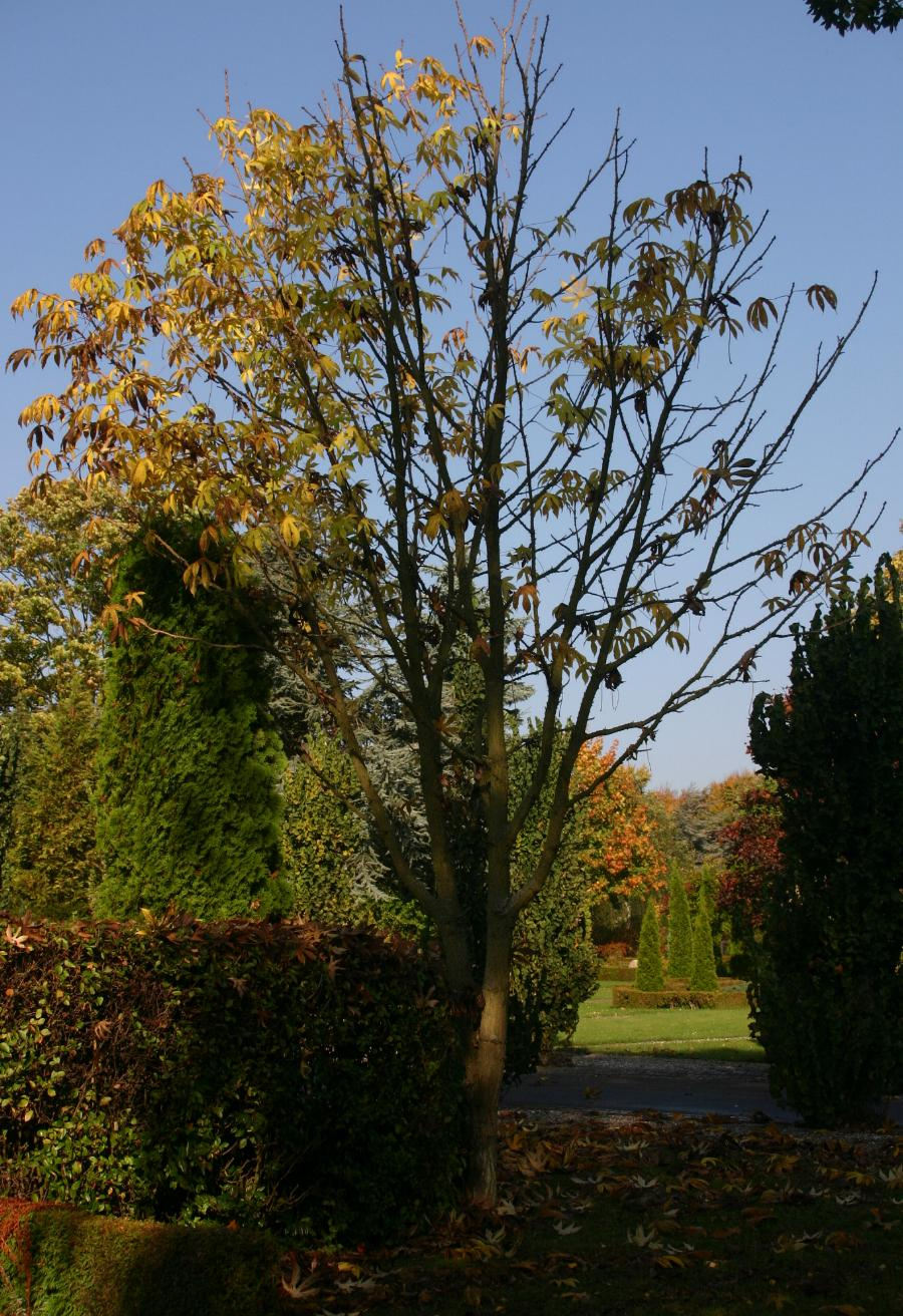 Kalopanax pictus: Habit of a young tree.